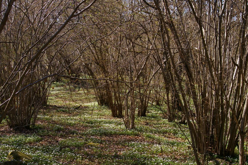 A forest of hazel trees (Corylus sp.) in Hansta, north of Stockholm in Sweden. Springtime.